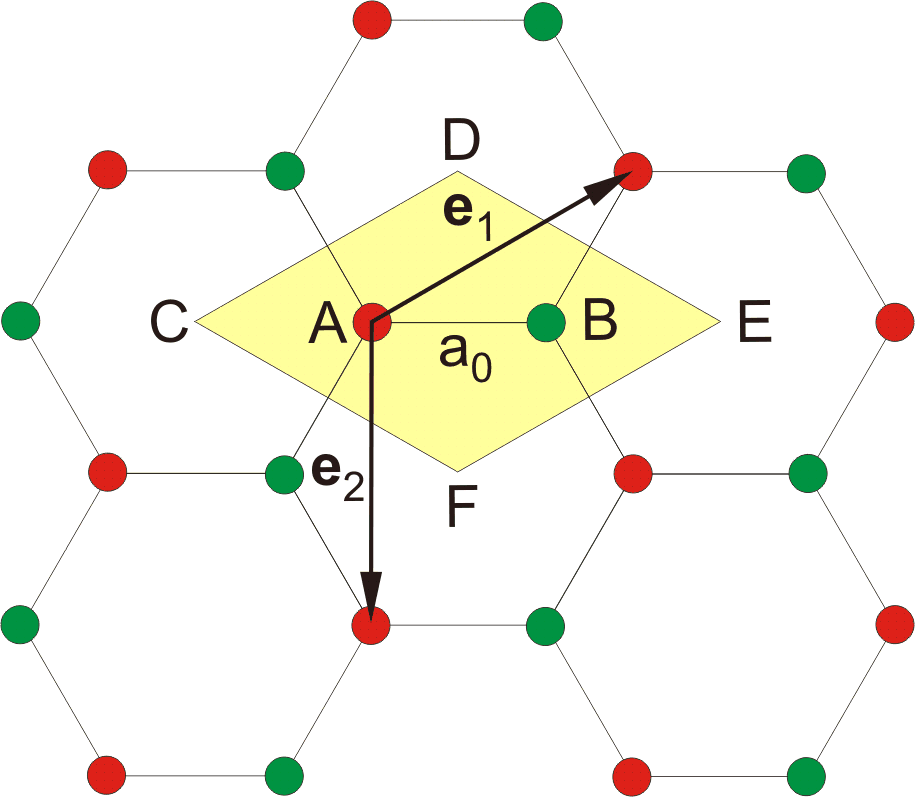 The hexagonal crystal structure of graphene with unit cell (CDEF) and the fundumental lattice displacements (e1, e2).